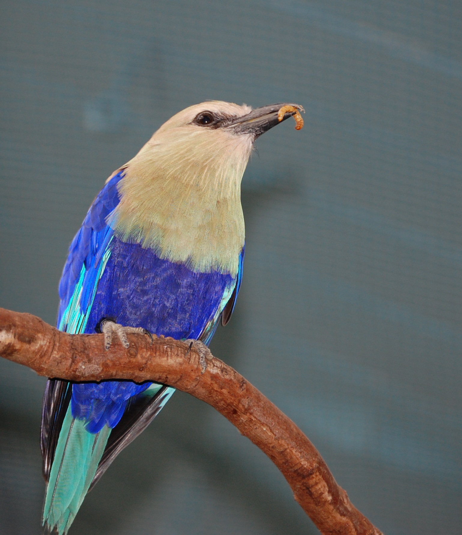 A Blue-bellied Roller at London Zoo, England.